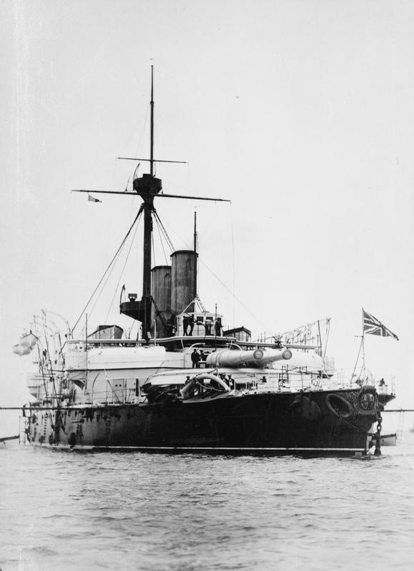 The Battleship Howe of 1885- Predecessor To the 35,000 Ton Howe of Today. HMS HOWE of 1885: Bow View.